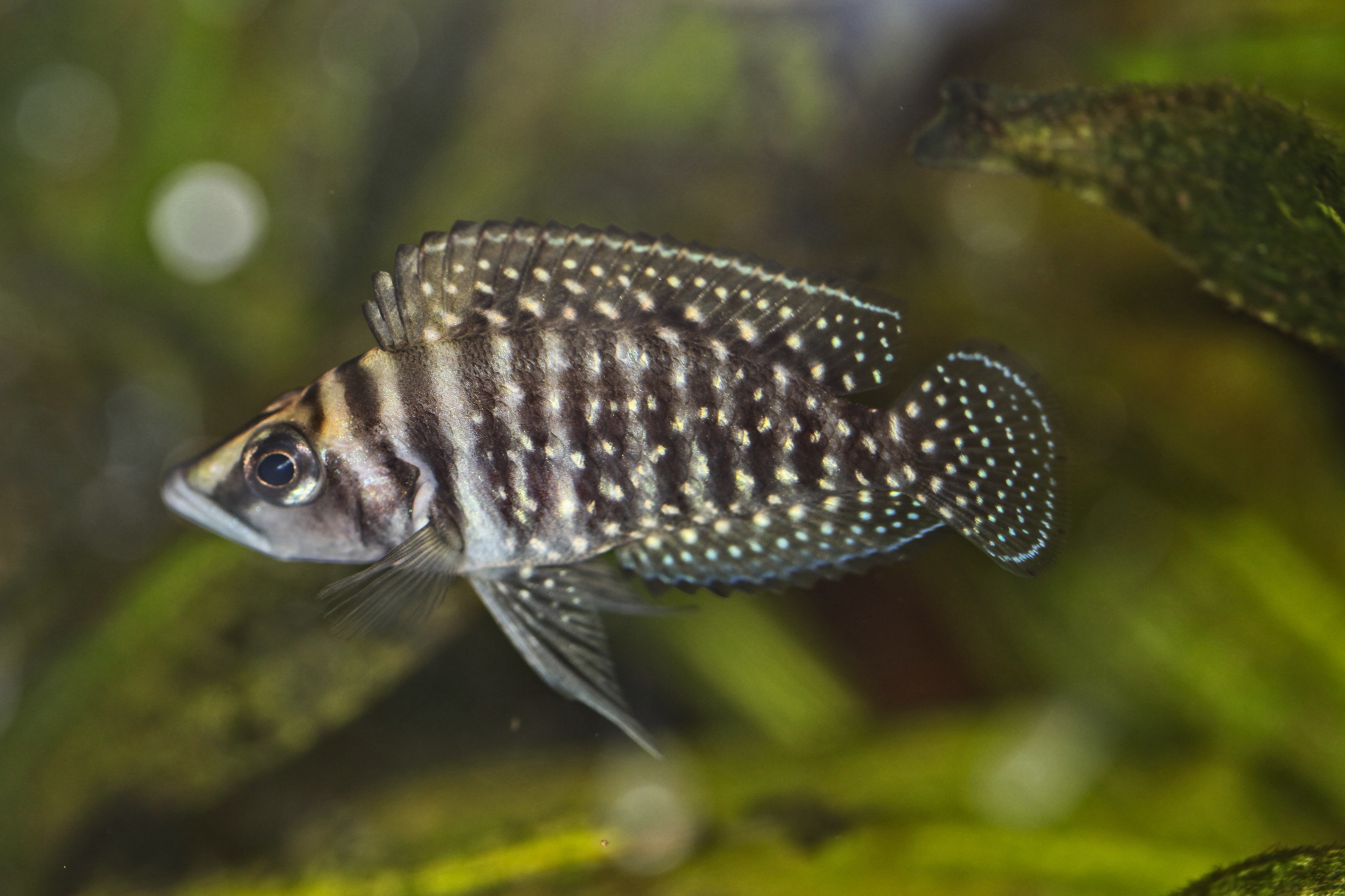 Altolamprologus calvus, lateral view.